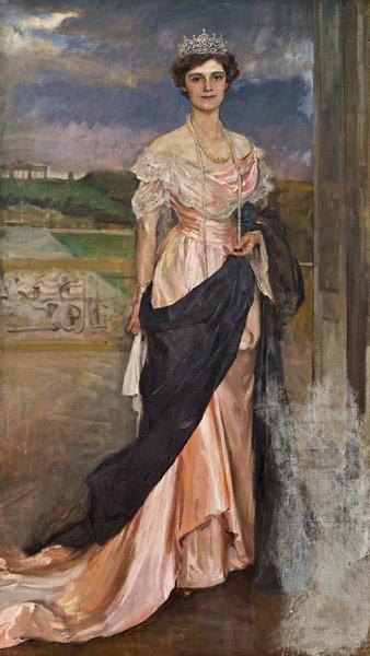 Zita, Kaiserin von Österreich und Königin von Ungarn.